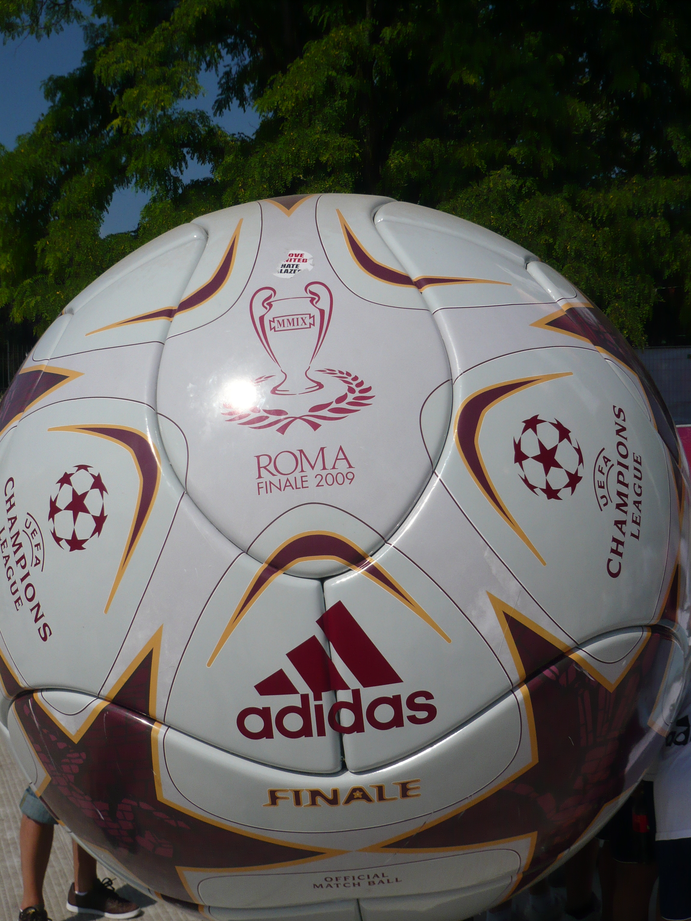 The riprodution of the official match ball at the 2009 UEFA Champions League Festival in Rome.